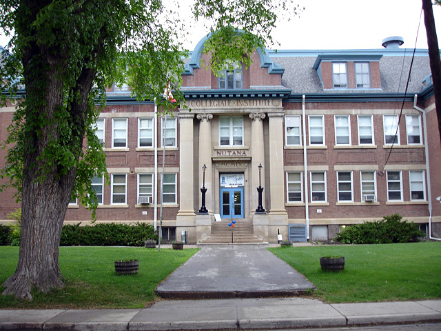 Nutana Collegiate (1909), Saskatoon's first public secondary school. Located on 11th Street East and Victoria Avenue in Saskatoon, Saskatchewan, Canada.